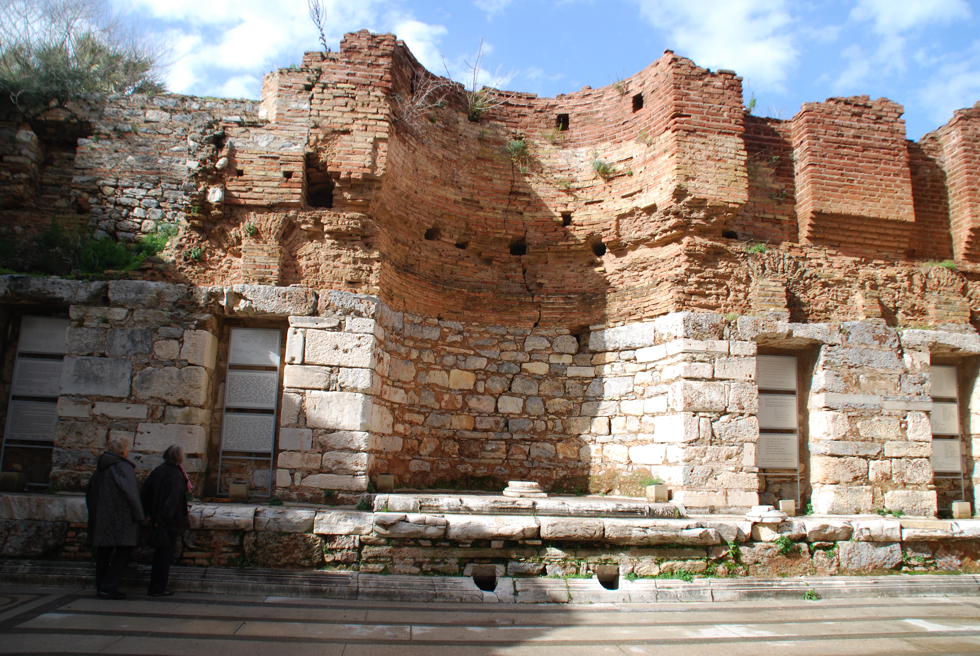 Ruins of Ephesos.